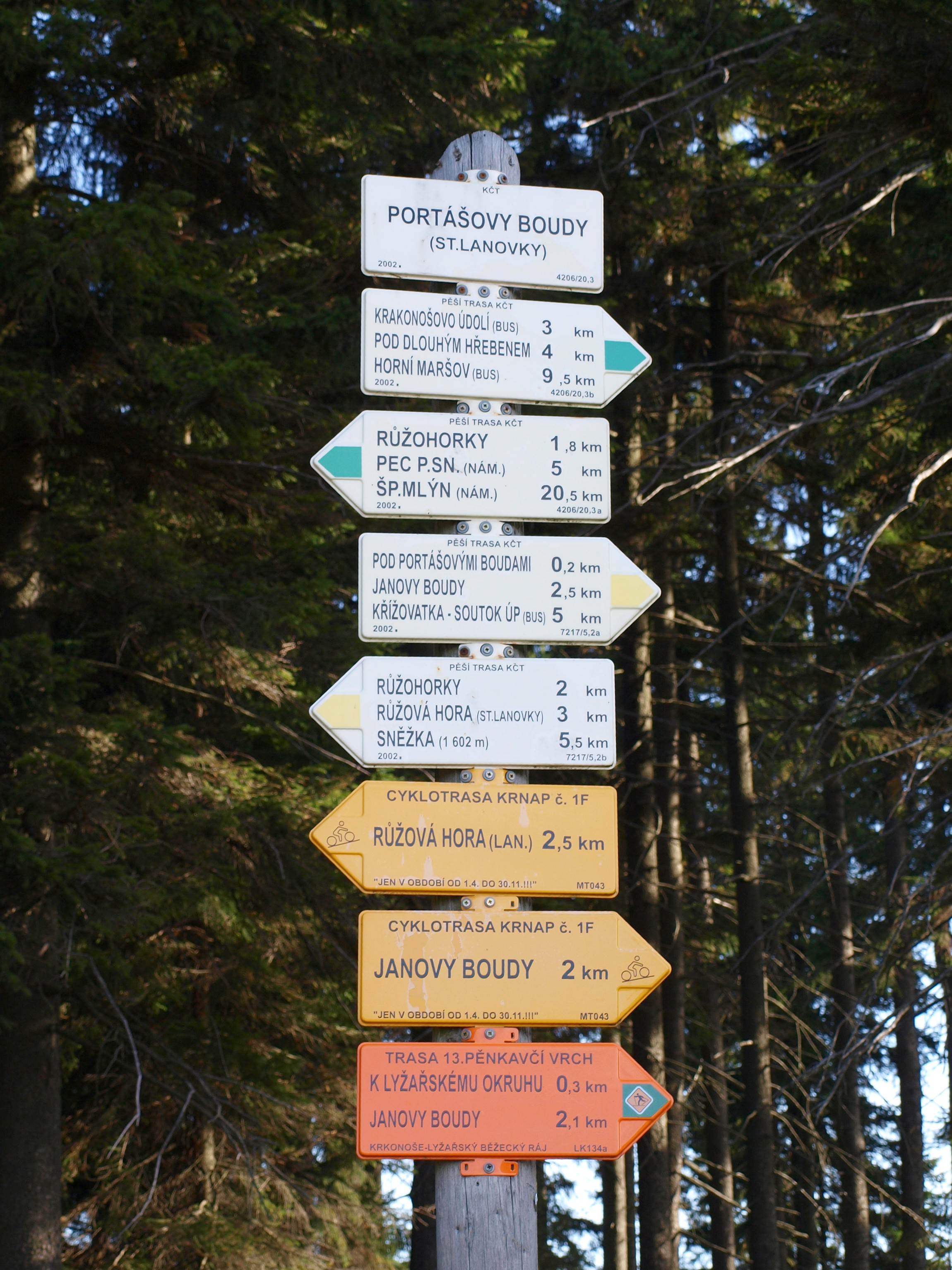 Portášky, finger-post, Krkonoše